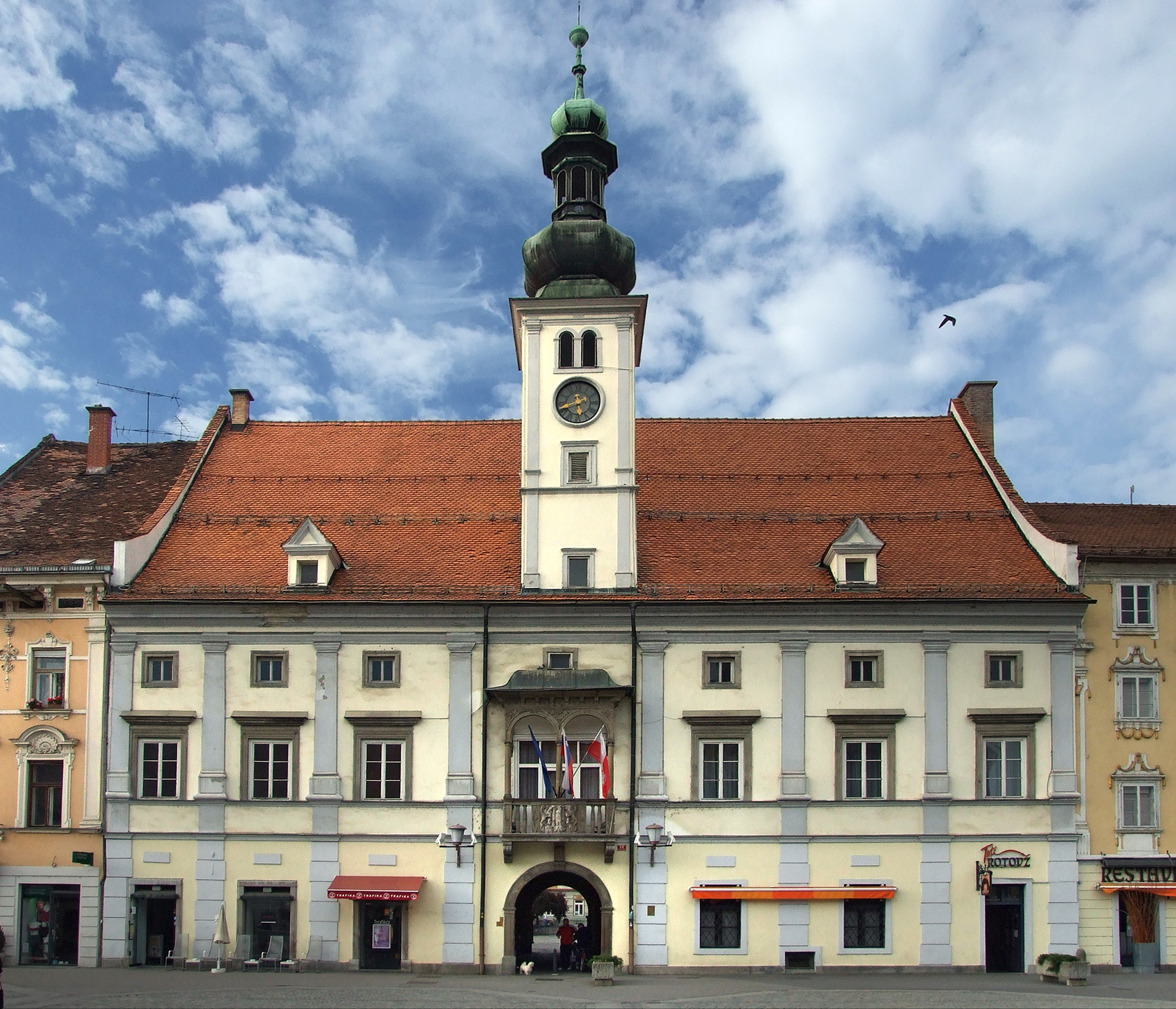 Maribor Town Hall on The Main Square (Glavni trg). It is a 16th century building.